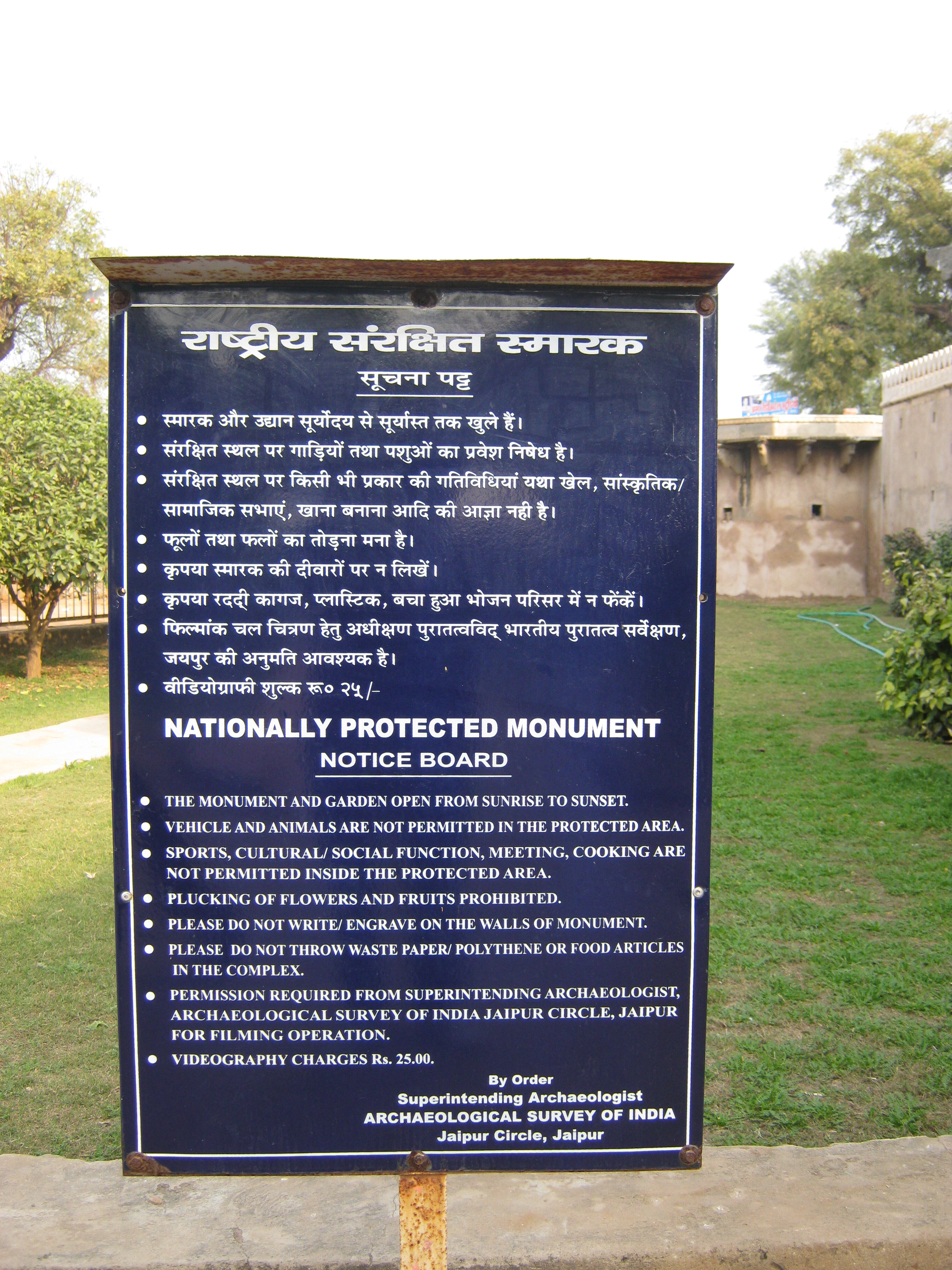 NPM protection board at Chand Baori